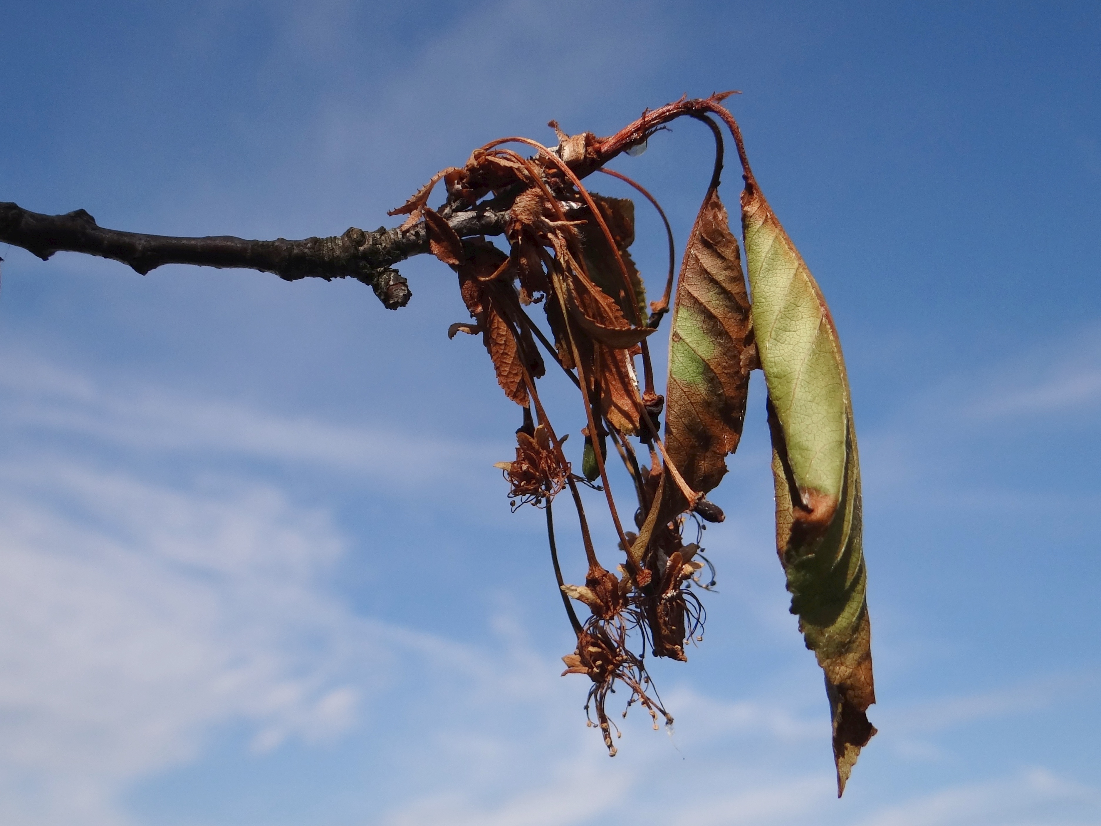 Monilinia laxa on Cerasus vulgaris (location: Poland)